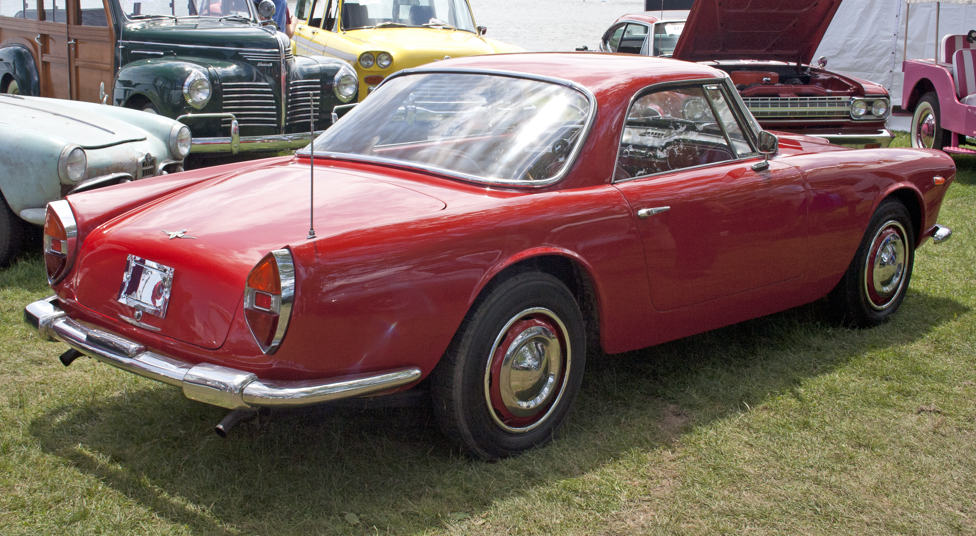 1961 Lancia Flaminia GT (Carrozzeria Touring). Chassis no. 824 00 1793, engine no. 823 00 4155, sold new to France. Seen at the Bonhams auction at the 2012 Greenwich Concours d'Elegance.